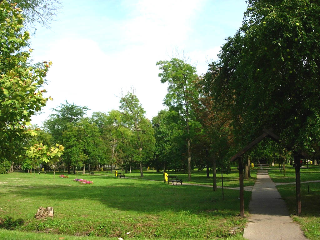 Park in the centre of Banatski Despotovac.